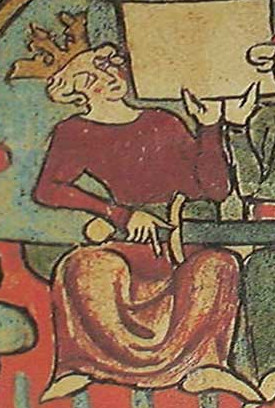 Depiction of Haakon IV, King of Norway in Flateyjarbók.